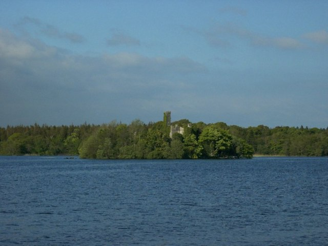 Castle Island - Lough Key, Co. Roscommon, ROI